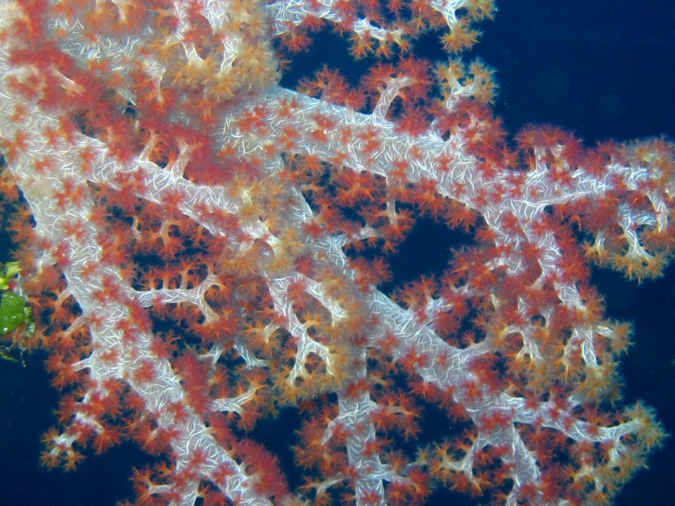 Soft corals (Dendronephthya sp.) Federated States of Micronesia, Chuuk.